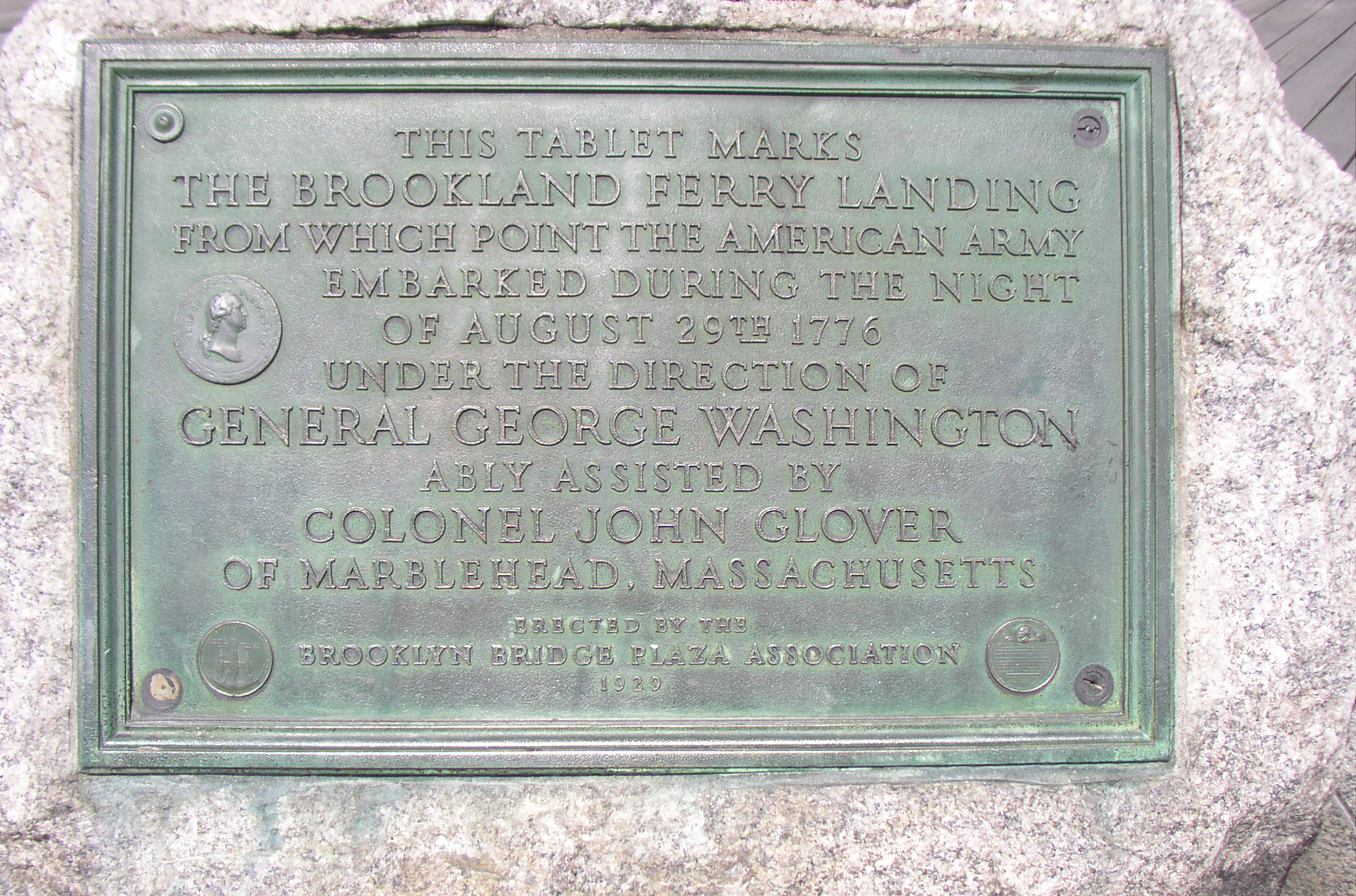 Plate on Fulton Ferry Pier to commemorate the embarkment of the American Army 20. August 1776